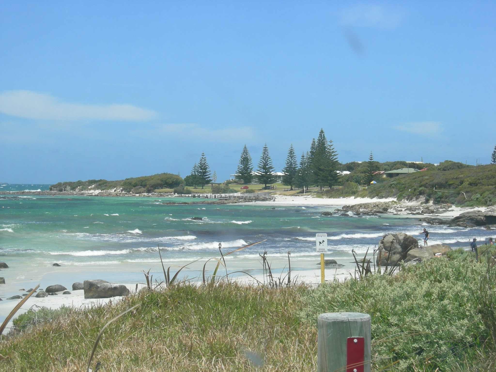 The whaling - taken from the north - near Flinders Bay caravan park entrance